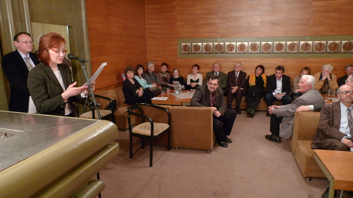 Roman Michelko at the authors reading from his book Eseje o Globalizácii, Spolok slovenských spisovateľov café, 2, Laurinská Street, Bratislava, Slovakia, 17.3.2009. Roman Michelko is in the centre wearing a dark brown jacket and black trousers. The gentleman in the front of him wearing a light grey jacket and black trousers is Ladislav Ťažký